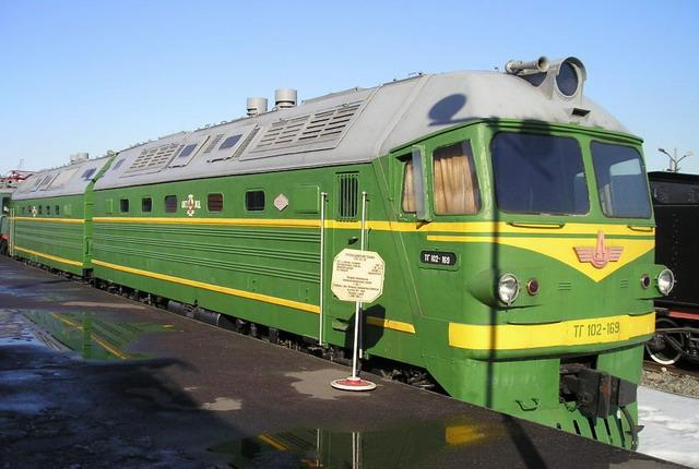 The exhibit of the open-air railway museum in former Varshavsky terminal in Saint-Petersburg, Russia. Was built in 1963 by Leningrad factory, Russia. Cargo-and-passenger diesel locomotive TG102